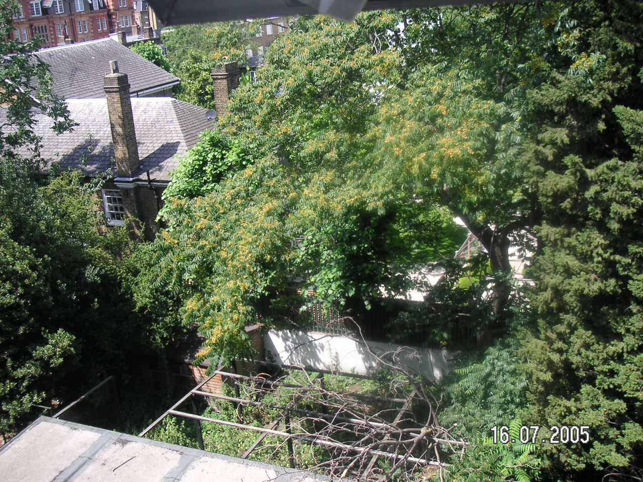 The former house of Freddie Mercury in Kensington (backside)